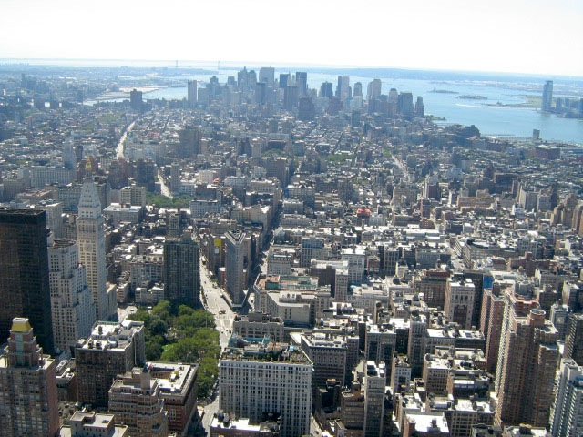 Shot taken from the observation deck of the Empire State Building, December 7, 2011. Photographed by Luigi Novi. This photo is not in the public domain. It may, however, be used, modified and published for any purpose, free of charge, only if the photographer is properly credited, either by linking the photograph to this page, or with an easily visible credit to the photographer placed near the photo in each instance in which it is used. (See licensing information below.) Publication of this photo without this proper attribution constitutes copyright infringement. If you have any questions, you can contact me on my Wikipedia Talk Page.